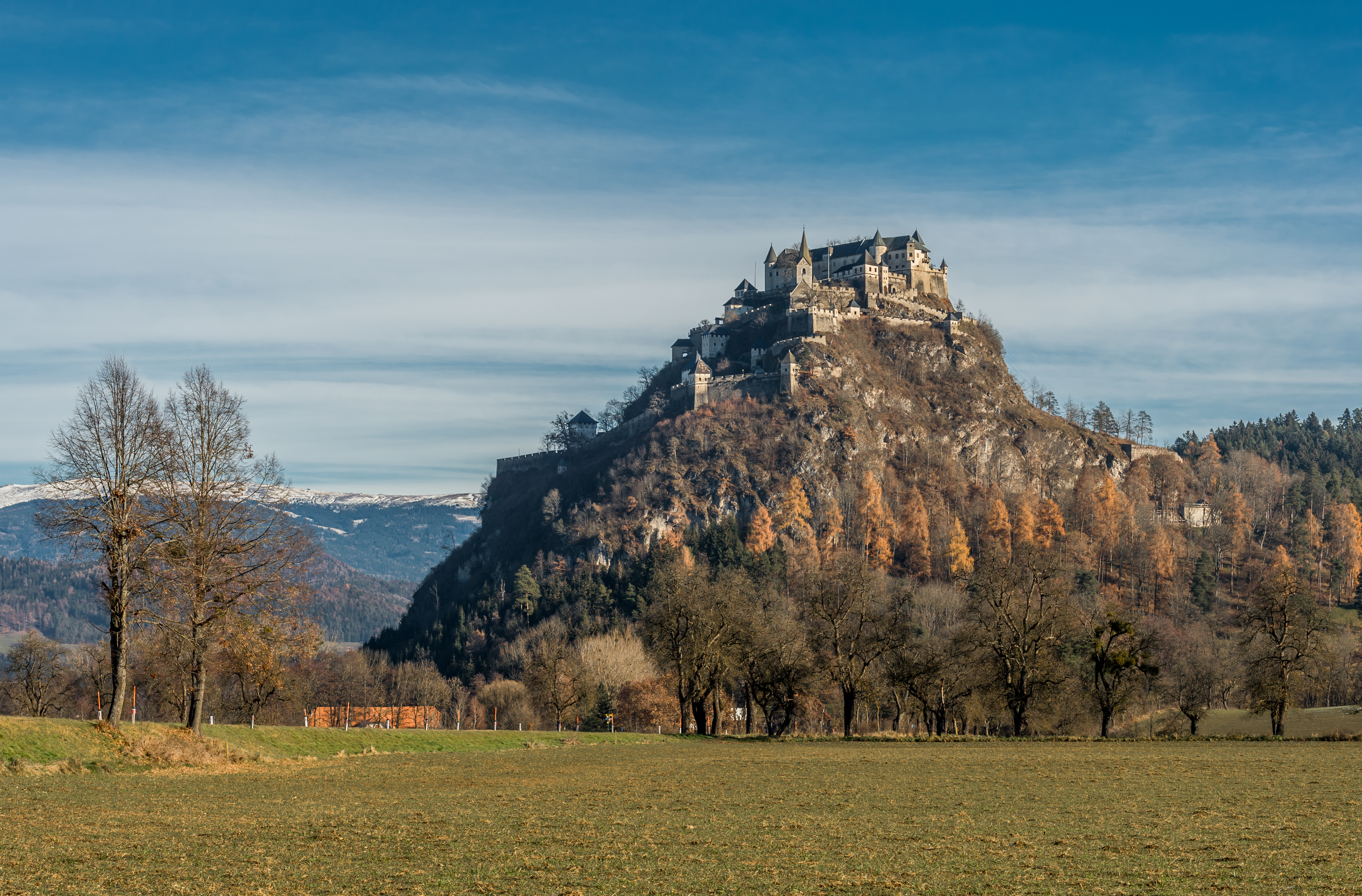 Castle Hochosterwitz, municipality Sankt Georgen am Laengsee, district Sankt Veit, Carinthia, Austria, EU